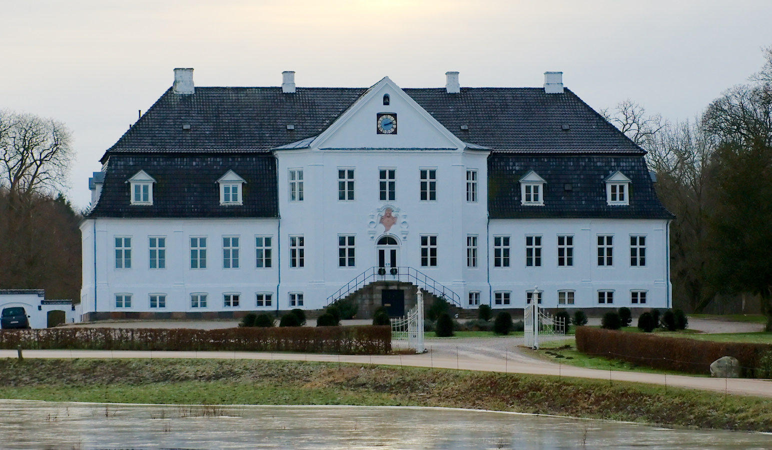 Lundsgaard estate